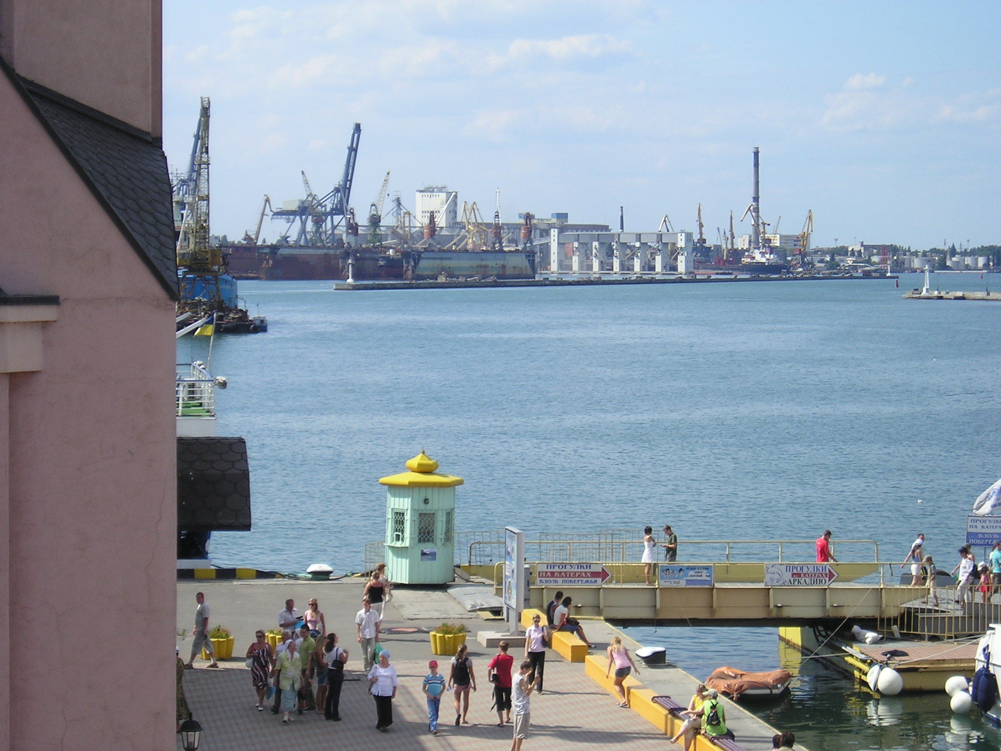 Harbor of Odessa, Aug 2008